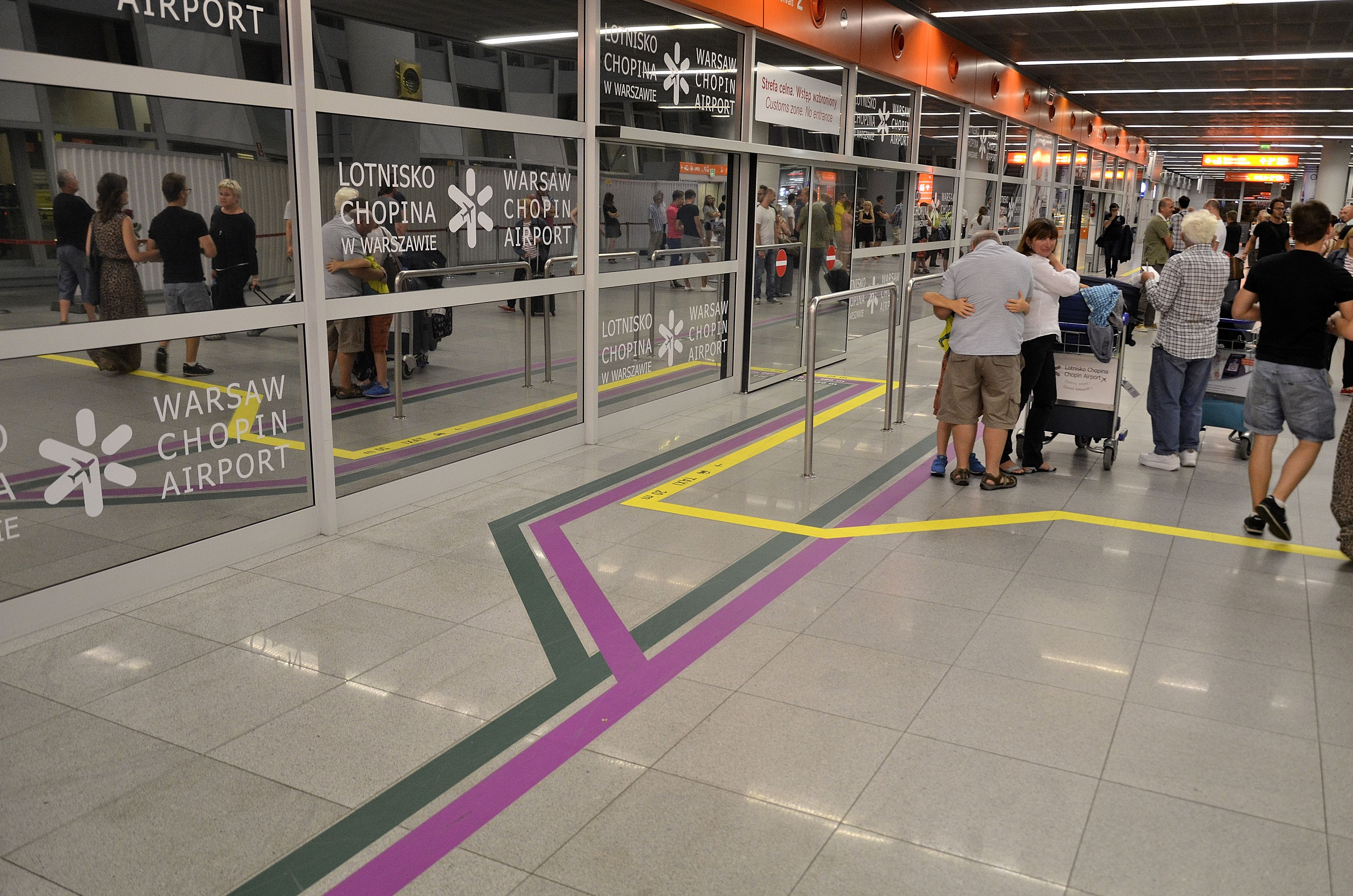 New signage showing the entrances to Warszawa Lotnisko Chopina railway stations, bus and taxi stops at Chopin Airport in Warsaw